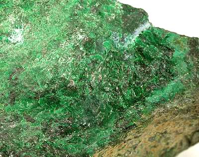 Hellyerite, Heazlewoodite, Zaratite Locality: Lord Brassey Mine, Heazlewood district, Tasmania, Australia (Locality at ) Size: 10.4 x 7.8 x 4.4 cm. A very rich, very rare and fine cabinet specimen from Tasmania. The rich, emerald-green coating of the rare nickel carbonate, zaratite, hosts powder-blue hellyerite and light bronze heazlewoodite. Hellyerite is a rare nickel carbonate and heazlewoodite is a rare nickel sulfide and the Lord Brassey Mine is the Type Locality for both species. The matrix also contains chromite. The Lord Brassey mine is an old abandoned nickel mine. You do not see much available. Older, exceptionally rich and rare combination material.